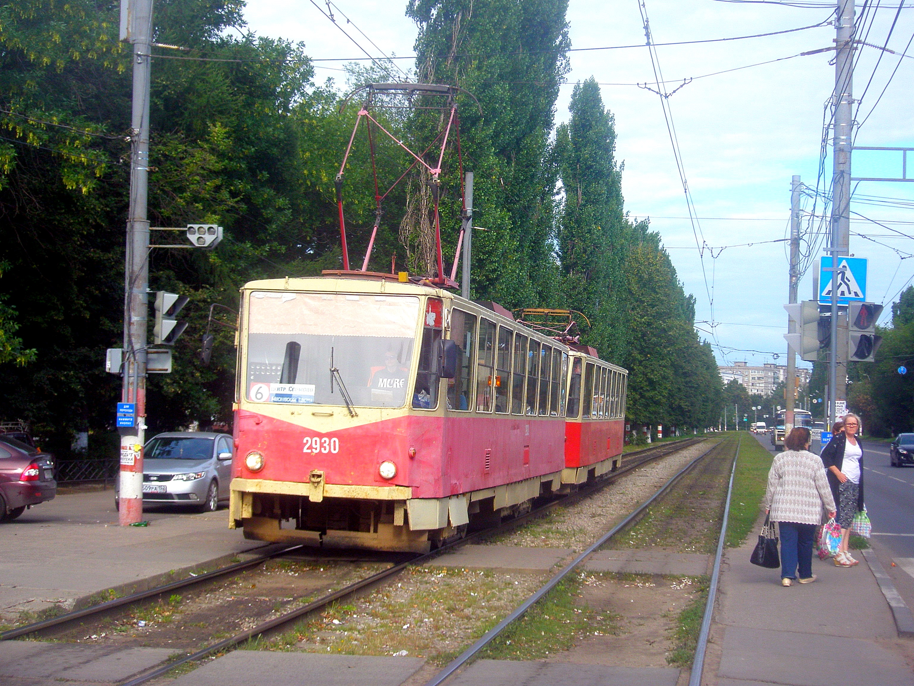 Tram number 2930 in Nizhny Novgorod on Sormovo road at Burevestnik metro station stop